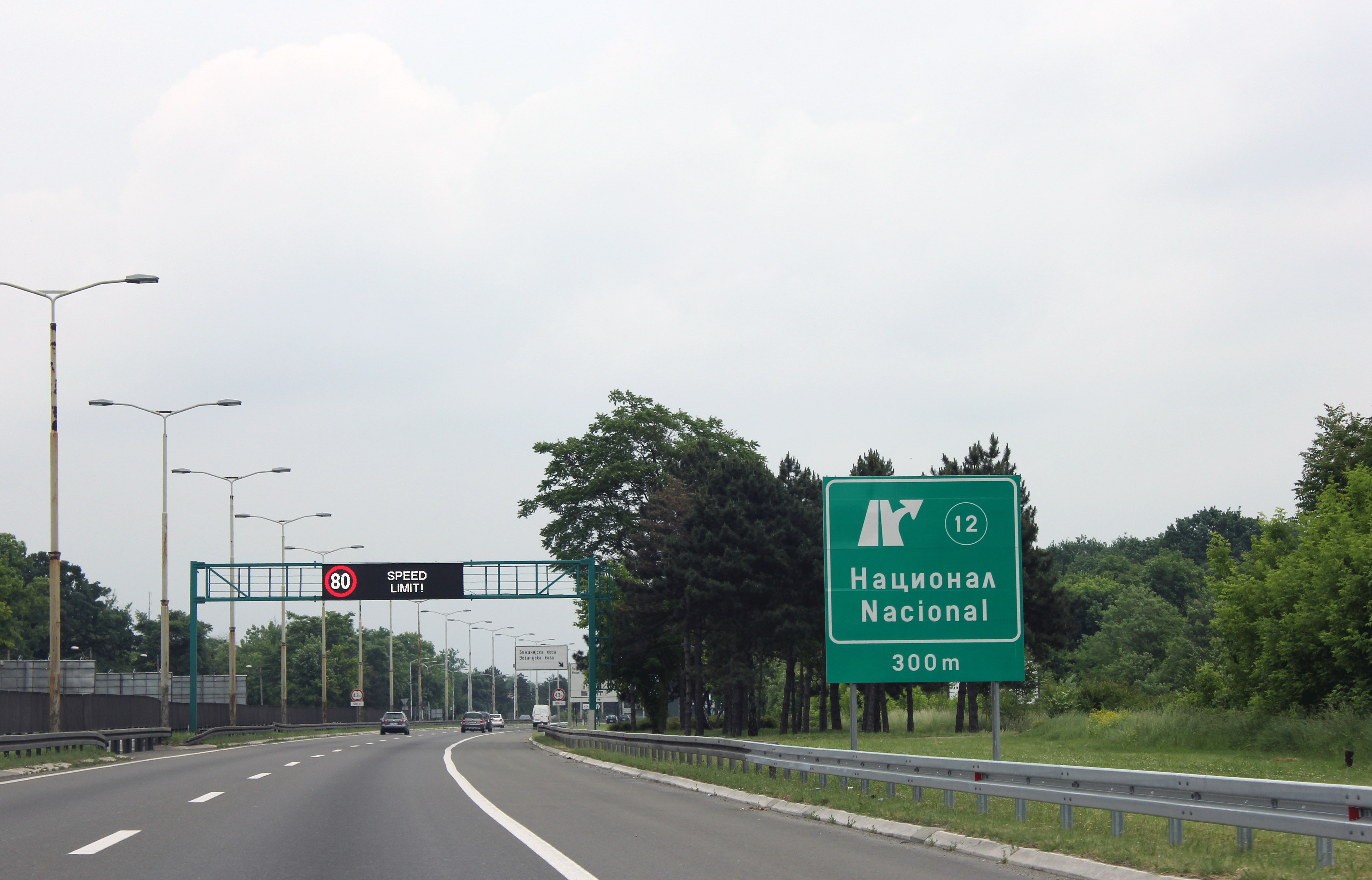 E75 highway in Belgrade, Nacional exit.